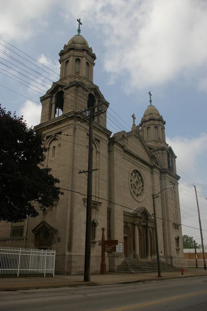 A view of St. Elizabeth's Magyar Roman Catholic Church at 9016 Buckeye Road, in Cleveland, Ohio. The structure, built in 1918, was designed by Emile Uhlrich, architect. It is listed on the National Register of Historic Places.